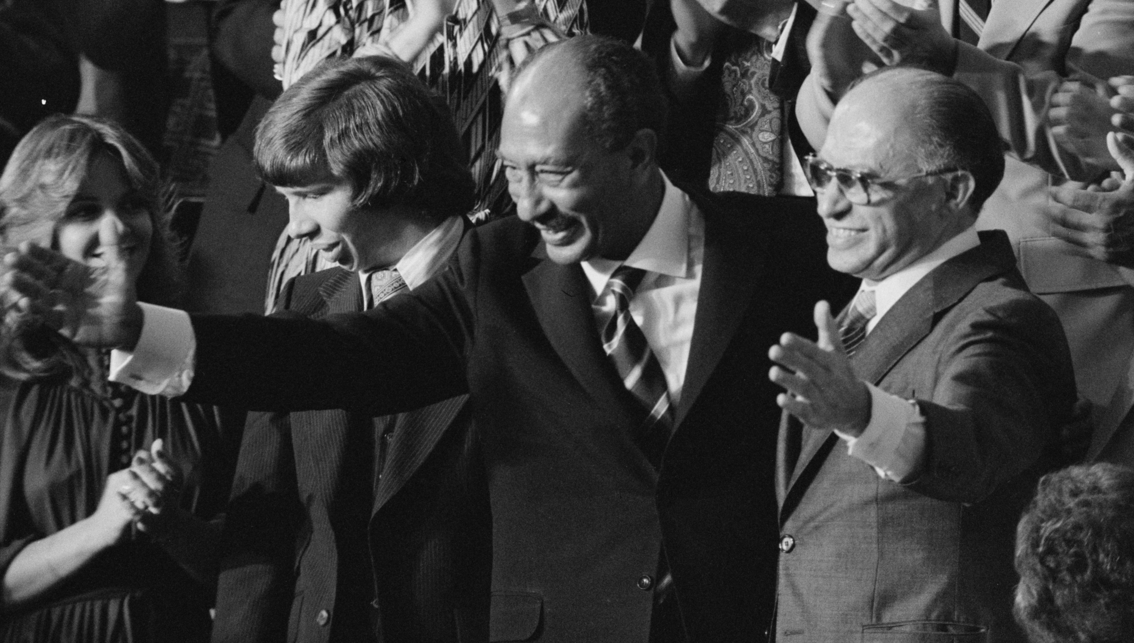 Library of Congress description: "Egyptian President Anwar Sadat and Israeli Prime Minister Menachem Begin acknowledge applause during a Joint Session of Congress in which President Jimmy Carter announced the results of the Camp David Accords"